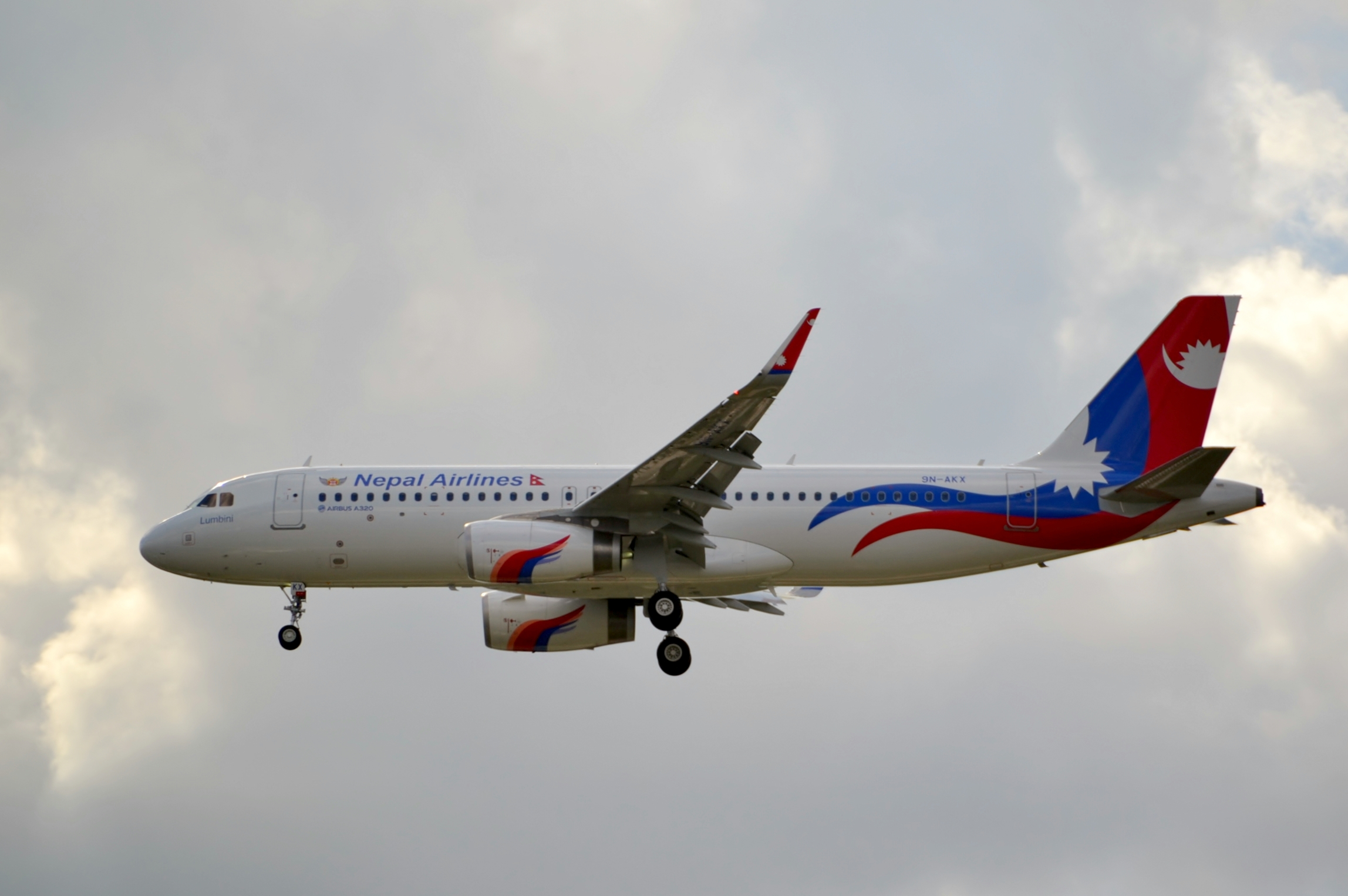 Airbus A320(SL) of Nepal Airlines on final approach to rwy. 19R at Bangkok-BKK, 07/09/15.